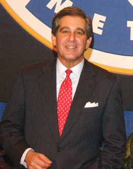 Louisville Metro Government, Image taken of Mayor Abramson by the Mayor's Communication Office staff with permission to use by the public.